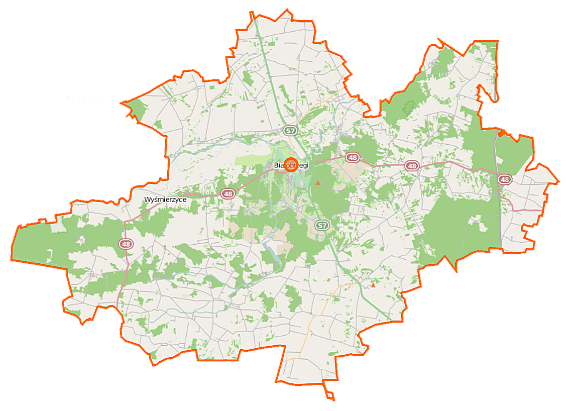 Map of Powiat białobrzeski, Poland This map of Powiat białobrzeski was created from OpenStreetMap project data, collected by the community. This map may be incomplete, and may contain errors. Don't rely solely on it for navigation. Border coordinates51.760220.6310←↕→21.250351.4810